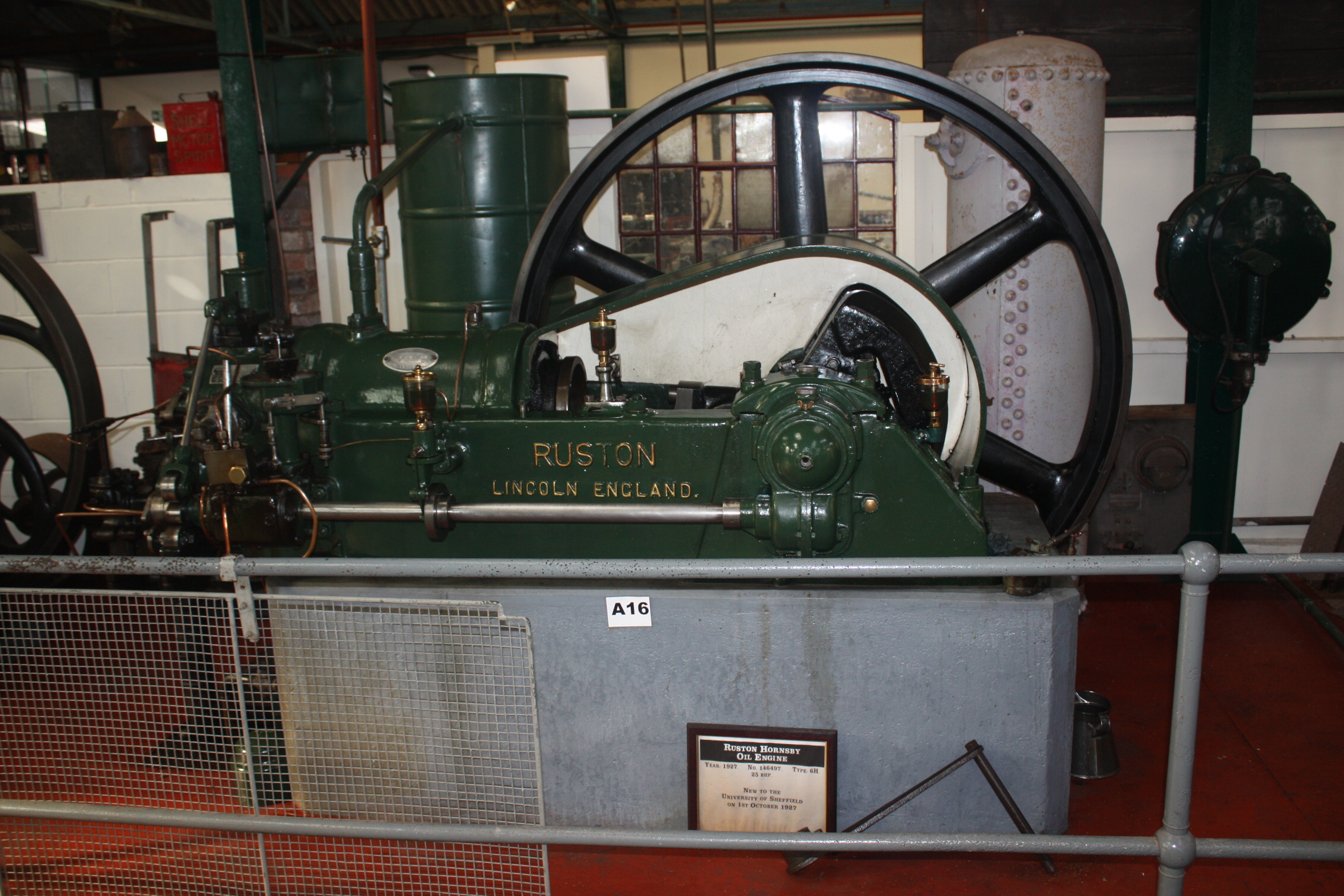 A Ruston Hornsby model 6H Oil engine built in 1927 of 25 hp supplied to the University of Sheffield. This engine is on Display at the Anson Engine Museum at Poynton in Cheshire England.